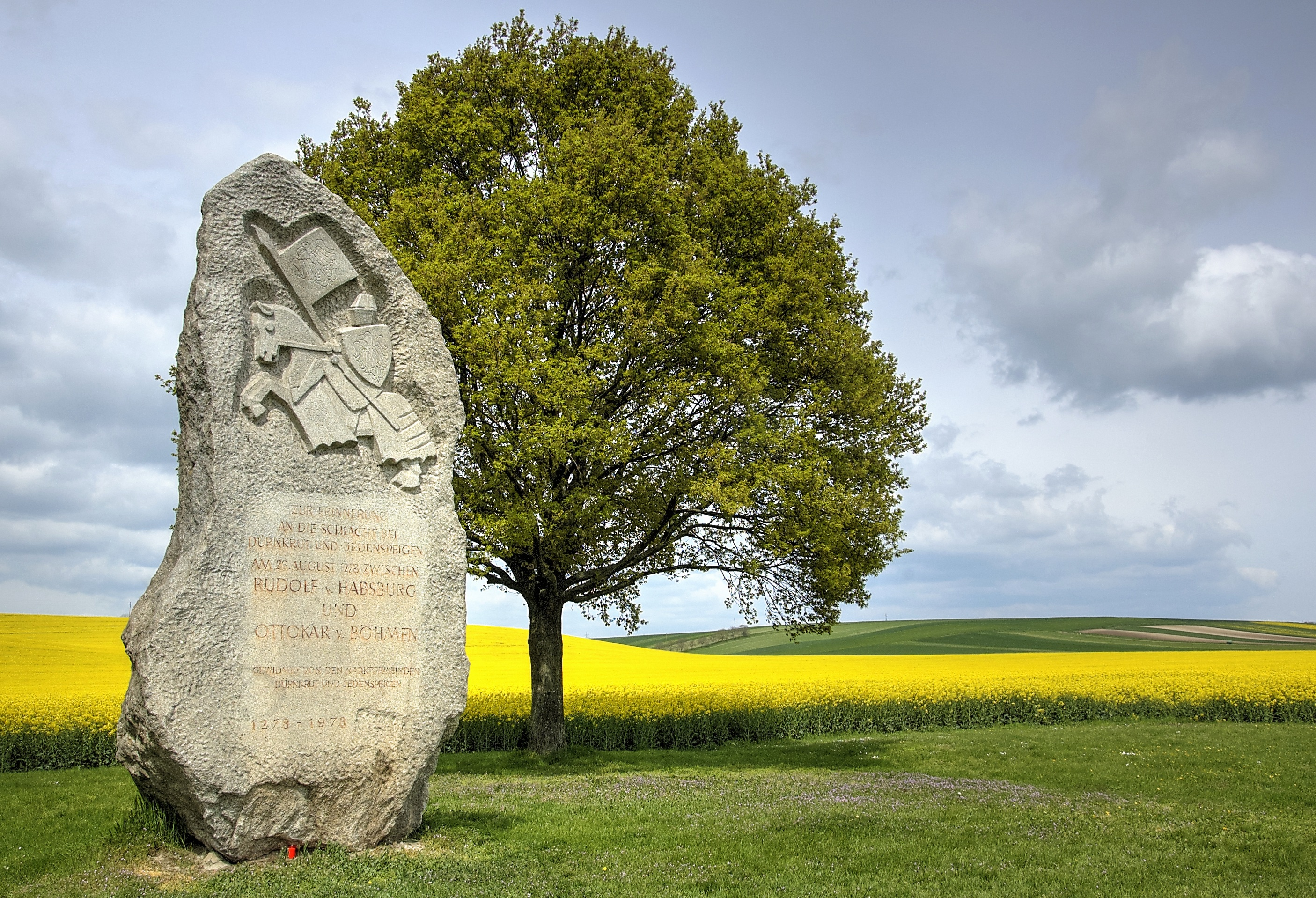 Battle on the Marchfeld Memorial